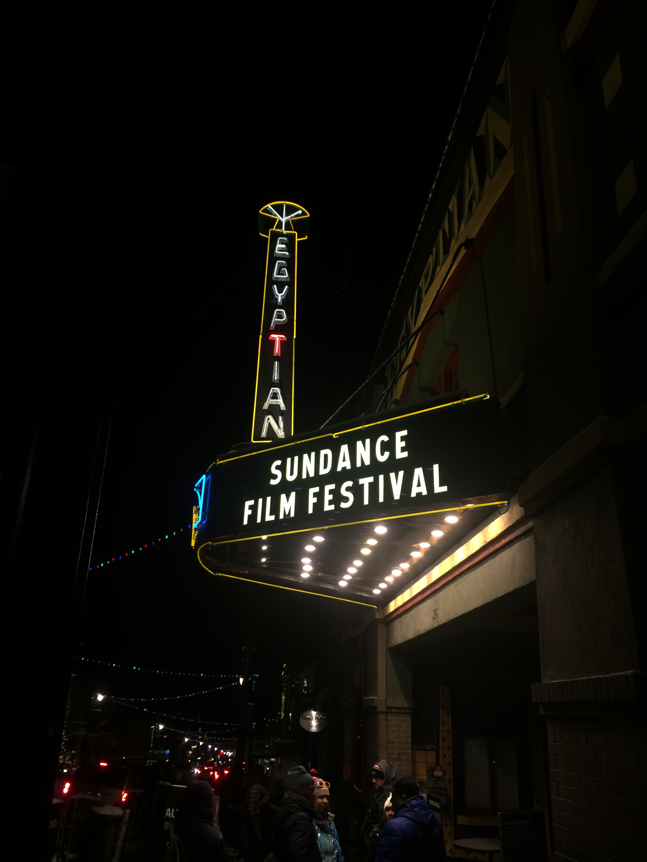 Egyptian Theater during Sundance 2018.